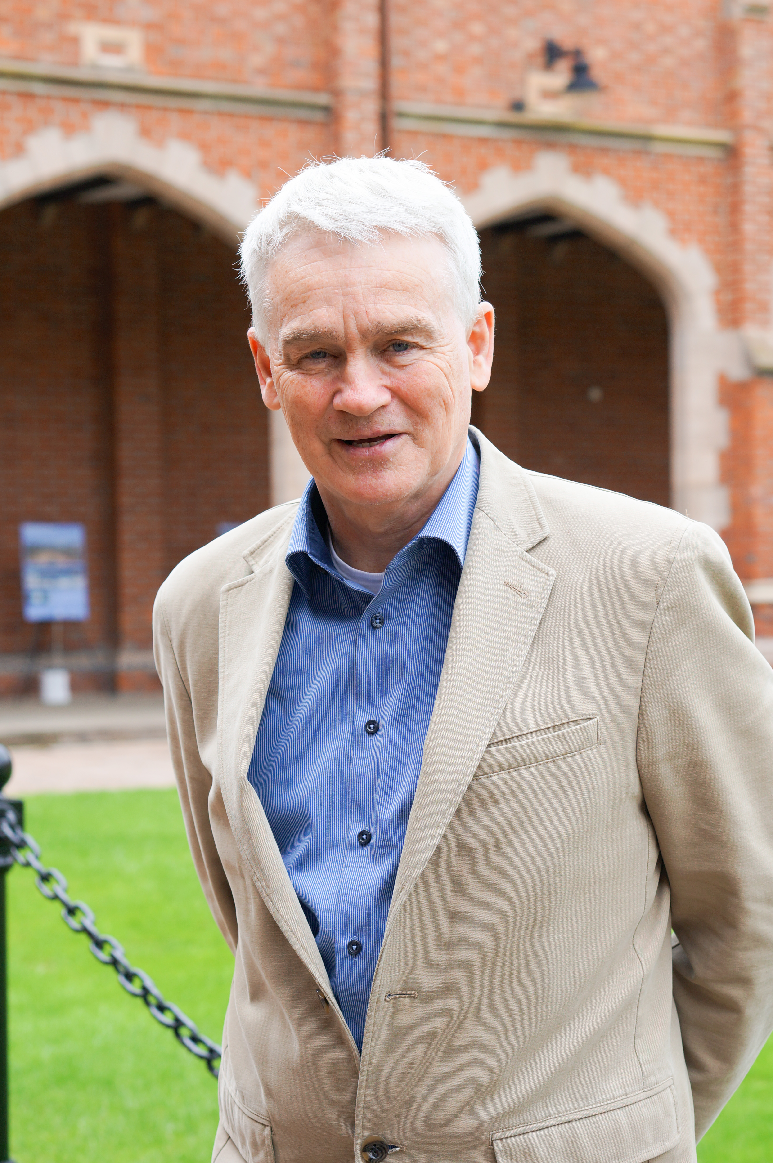 Former IRA man